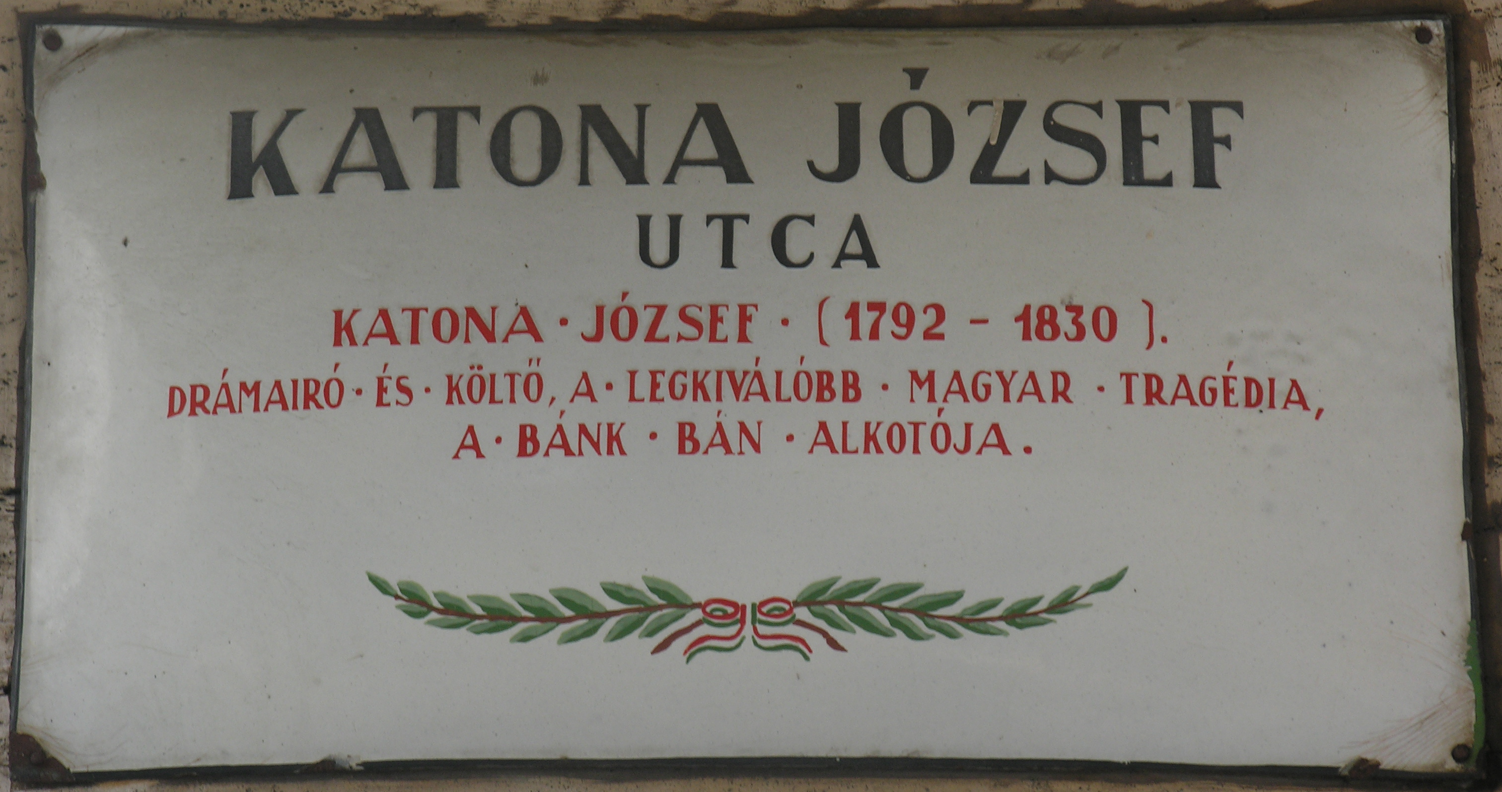 József Katona commemorative plaque in Budapest District XIII, Katona József Street No 37